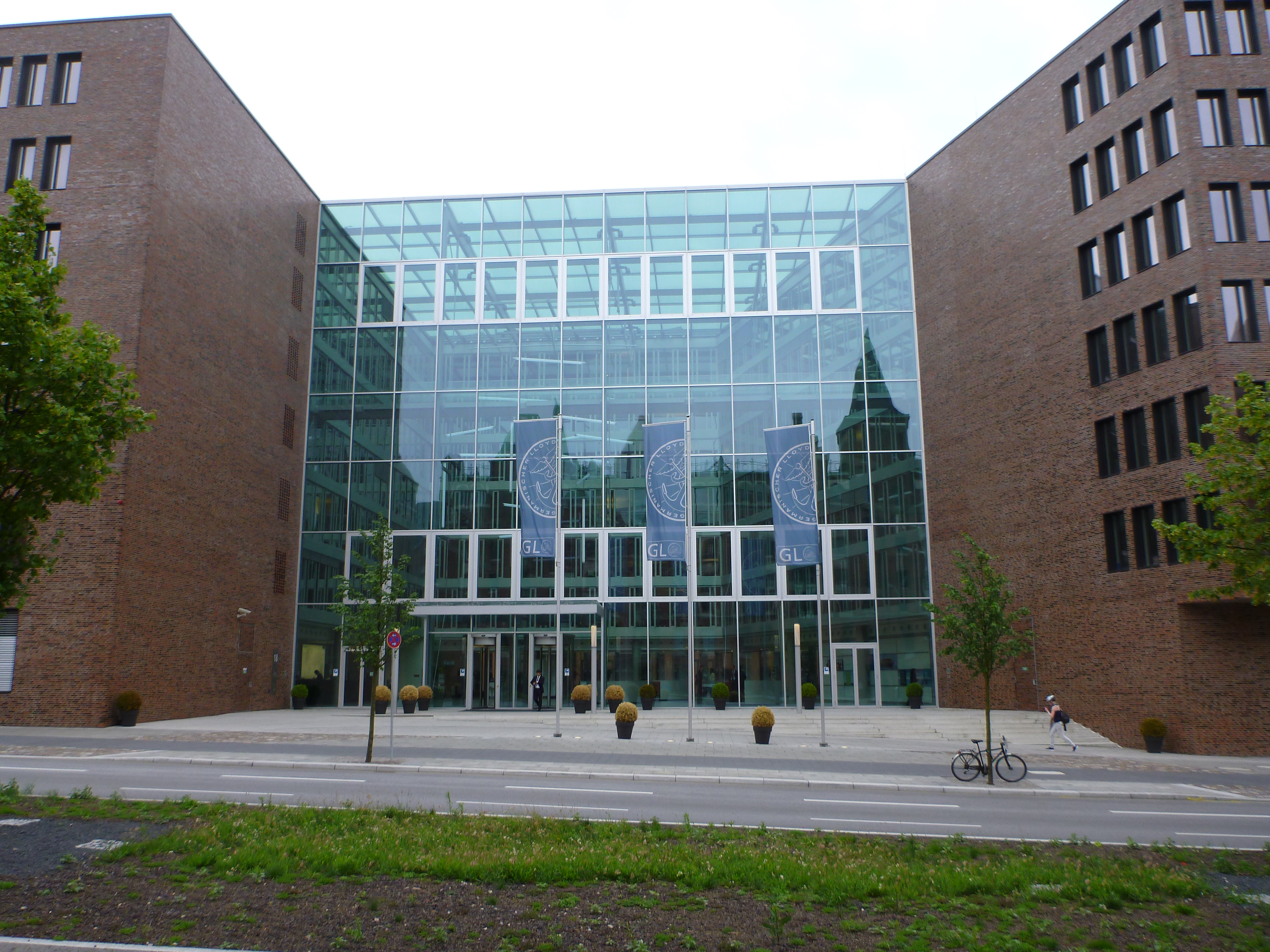 Main building of the Germanischer Lloyd in Hamburg, Brooktorkai 18 main entrance